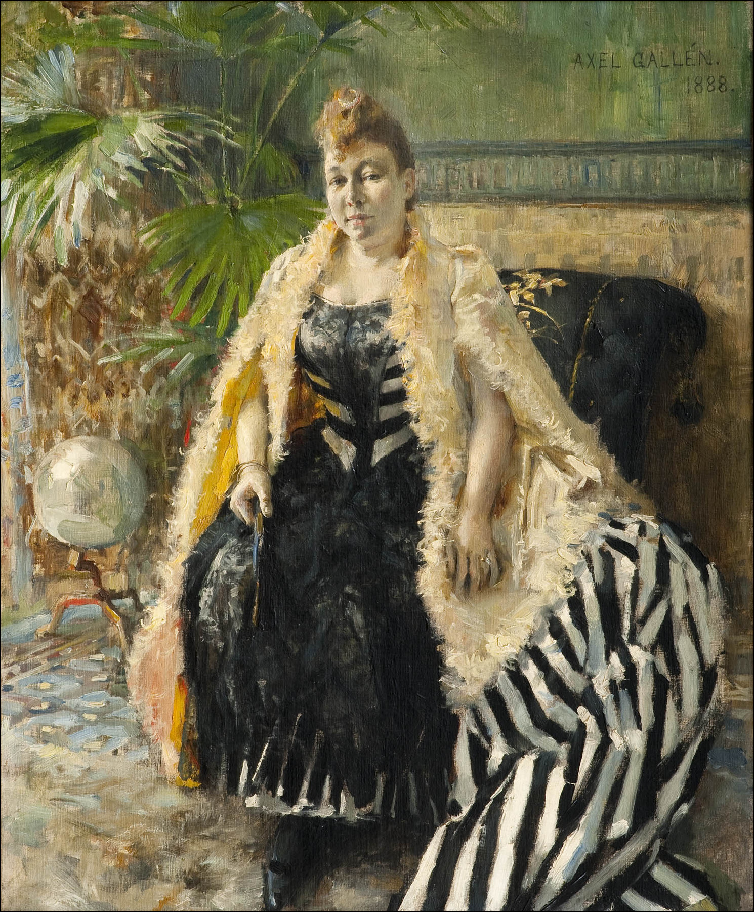 Parisienne.Pariisitar. Parisiskan.